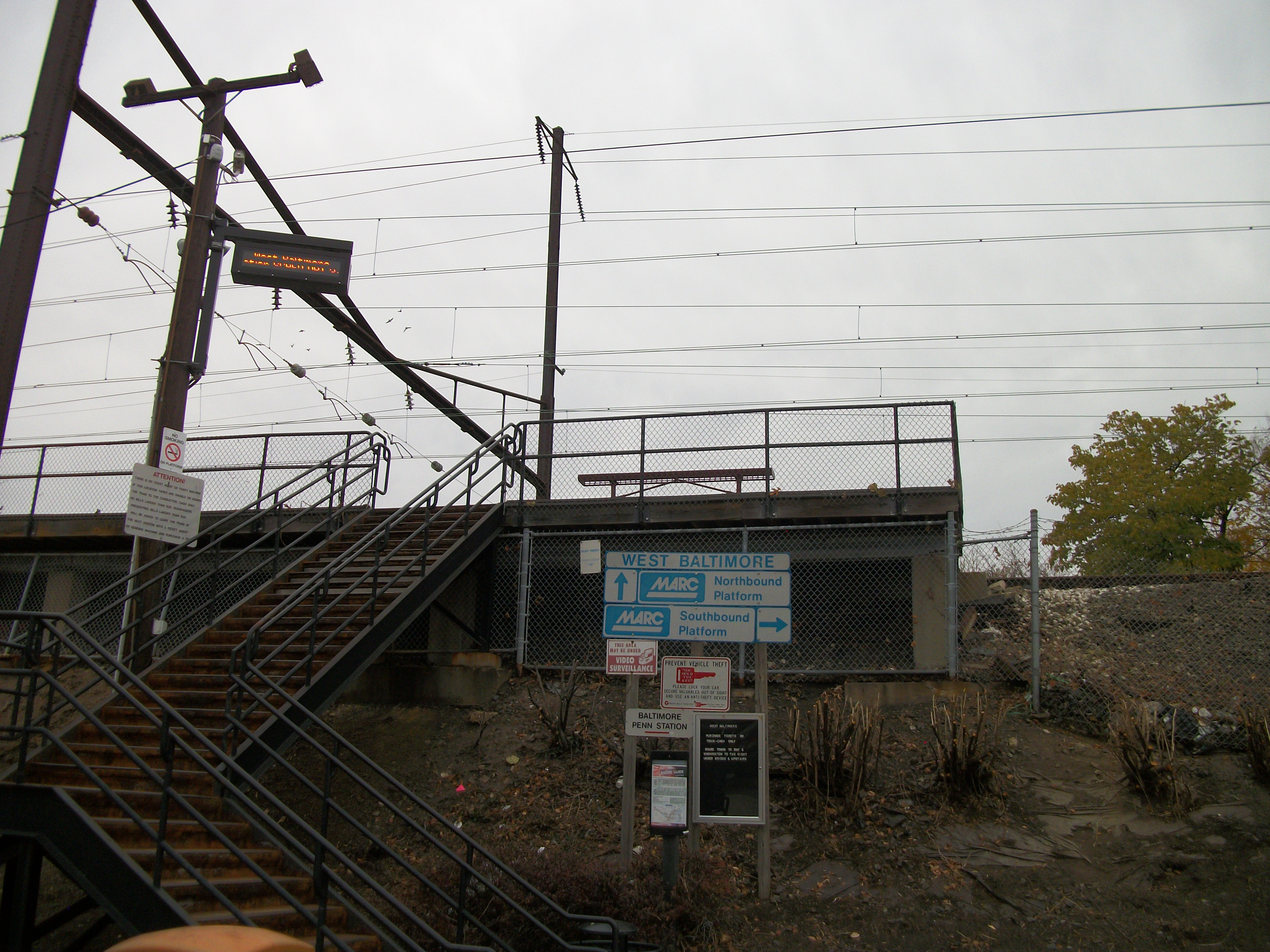 Staircase leading to the Baltimore Pennsylvania Station-bound platform at West Baltimore (MARC station), in Baltimore, Maryland.